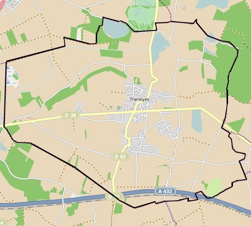 Geolocalisation: top: 45.8945 bottom: 45.8539 left: 4.9301 right: 4.9948